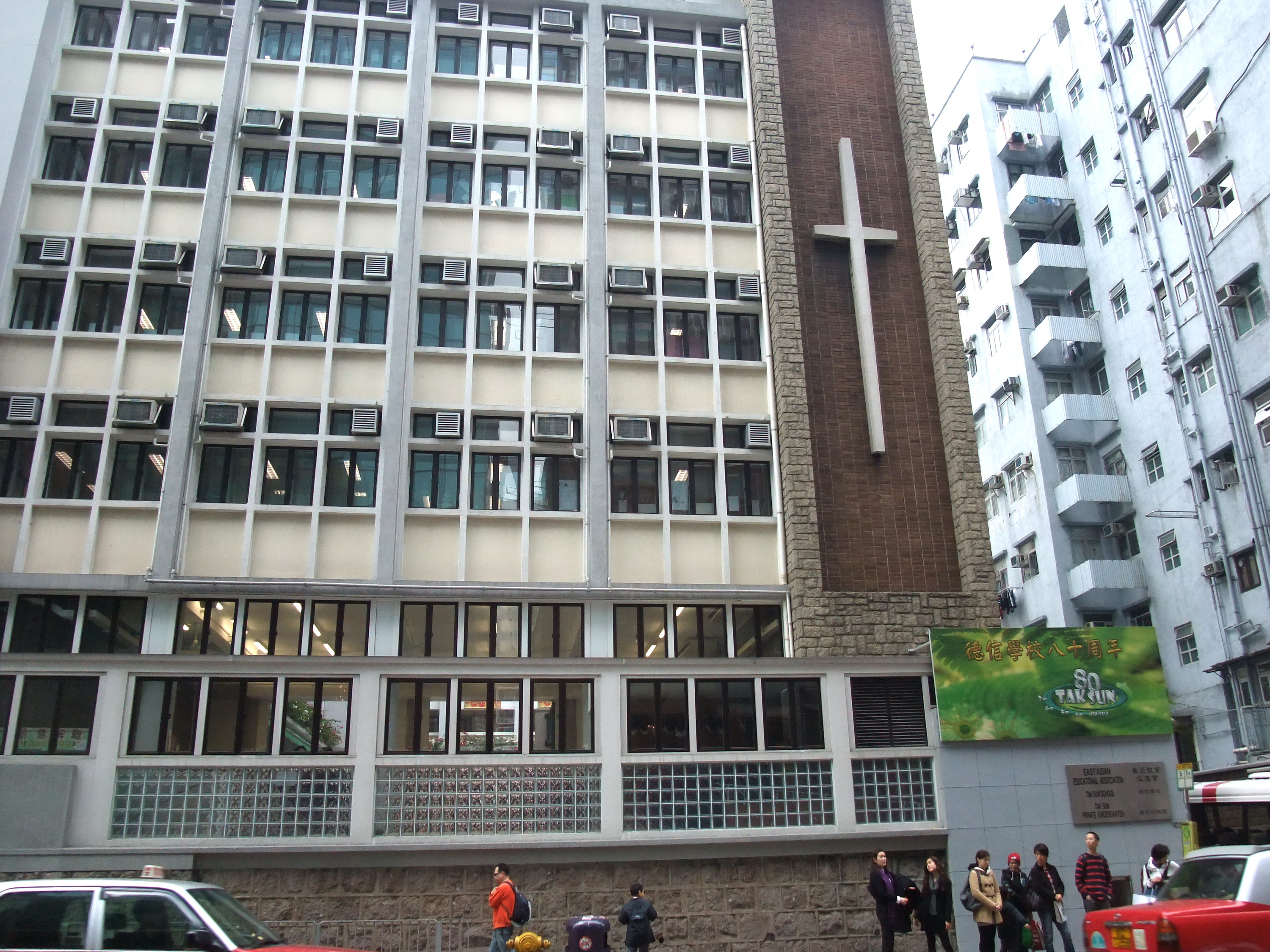 Tak Sun School (primary school) in Tsim Sha Tsui, Hong Kong.